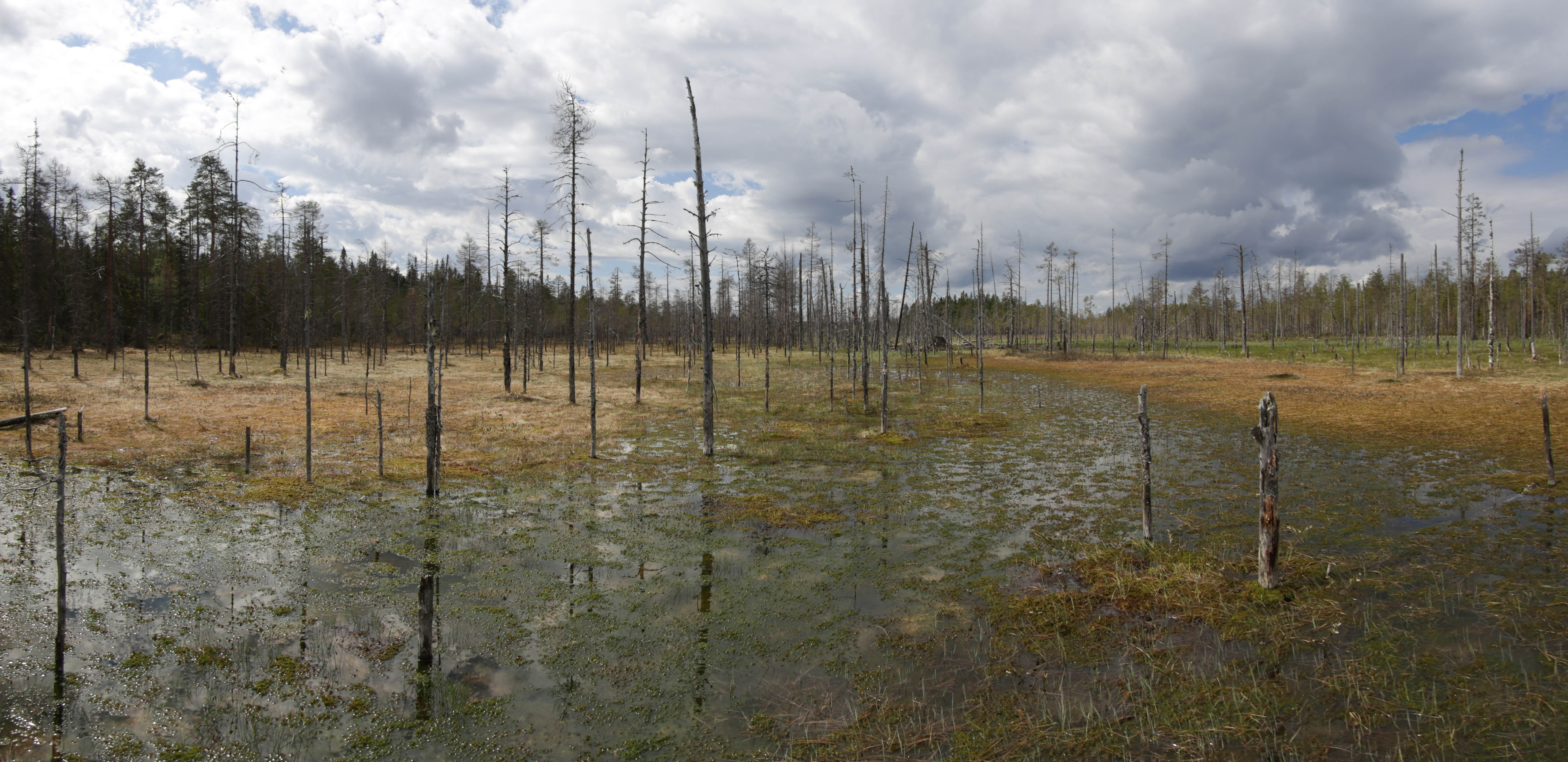 Elimyssalo nature reserve, Kuhmo, Finland